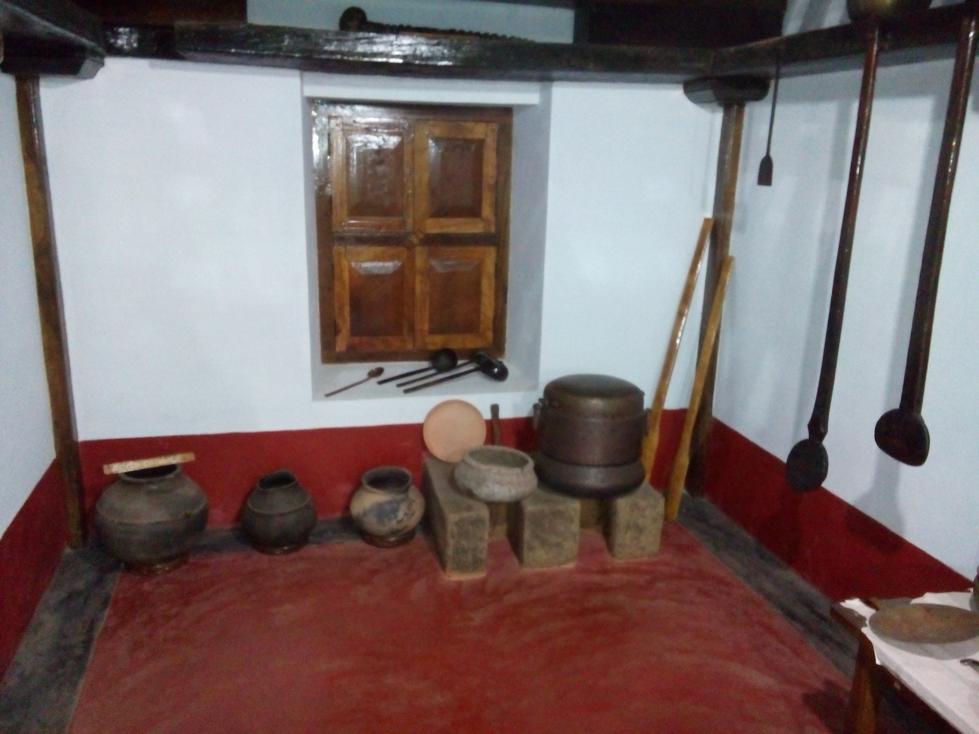 cooking vesseles